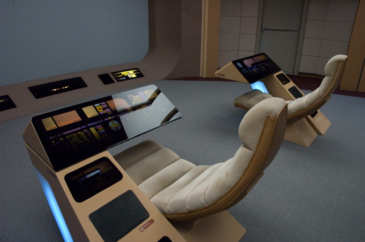 While in Las Vegas Chuck and I got a backstage tour of the Star Trek Experience at the Las Vegas Hilton for Technorama. Watch the Technorama site for an Audio and Video tour coming soon. It is stuff we can't show till after it closes on September 1st!